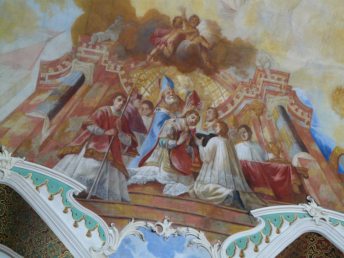 Johannes Zick: Scene from the life of Norbert of Xanten; Church of St. Magnus (Kloster Schussenried) in the town of Bad Schussenried in Upper Swabia in Germany